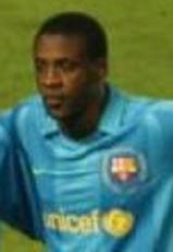 Detail of Image:FC Barcelona 2007 cropped.jpg, which was uploaded by User:Chantrybee on 29 September 2007. Formació inicial UD Levante – FC Barcelona 29/9/2007, Yaya Touré